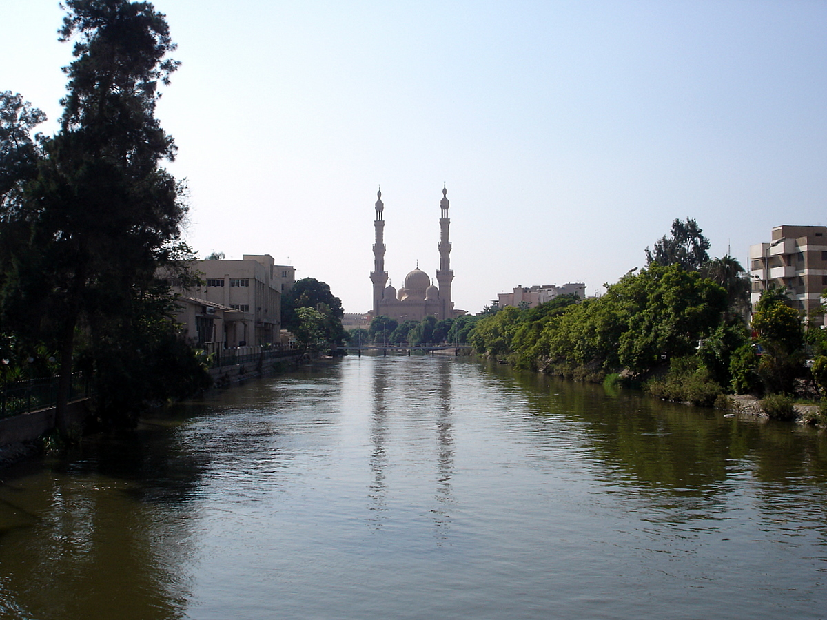 Picture of Mosque in Zagazig, taken from the Bridge near Marina Hotel. Michael Kowalczyk August, 2007